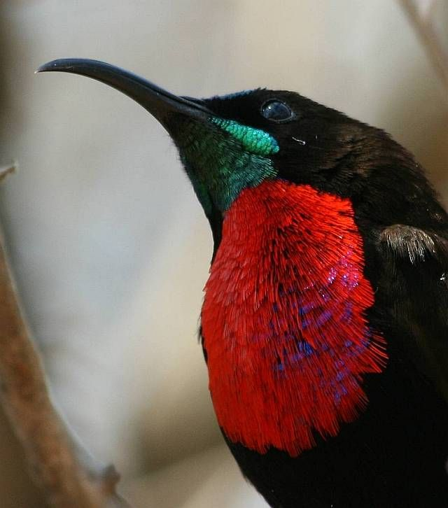 Scarlet-chested Sunbird (Chalcomitra senegalensis or Nectarinia senegalensis) Location: Malelane Gate, Kruger national Park, South Africa.